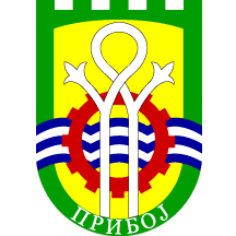 Coat of Arms of the city and municipality of Priboj, Serbia